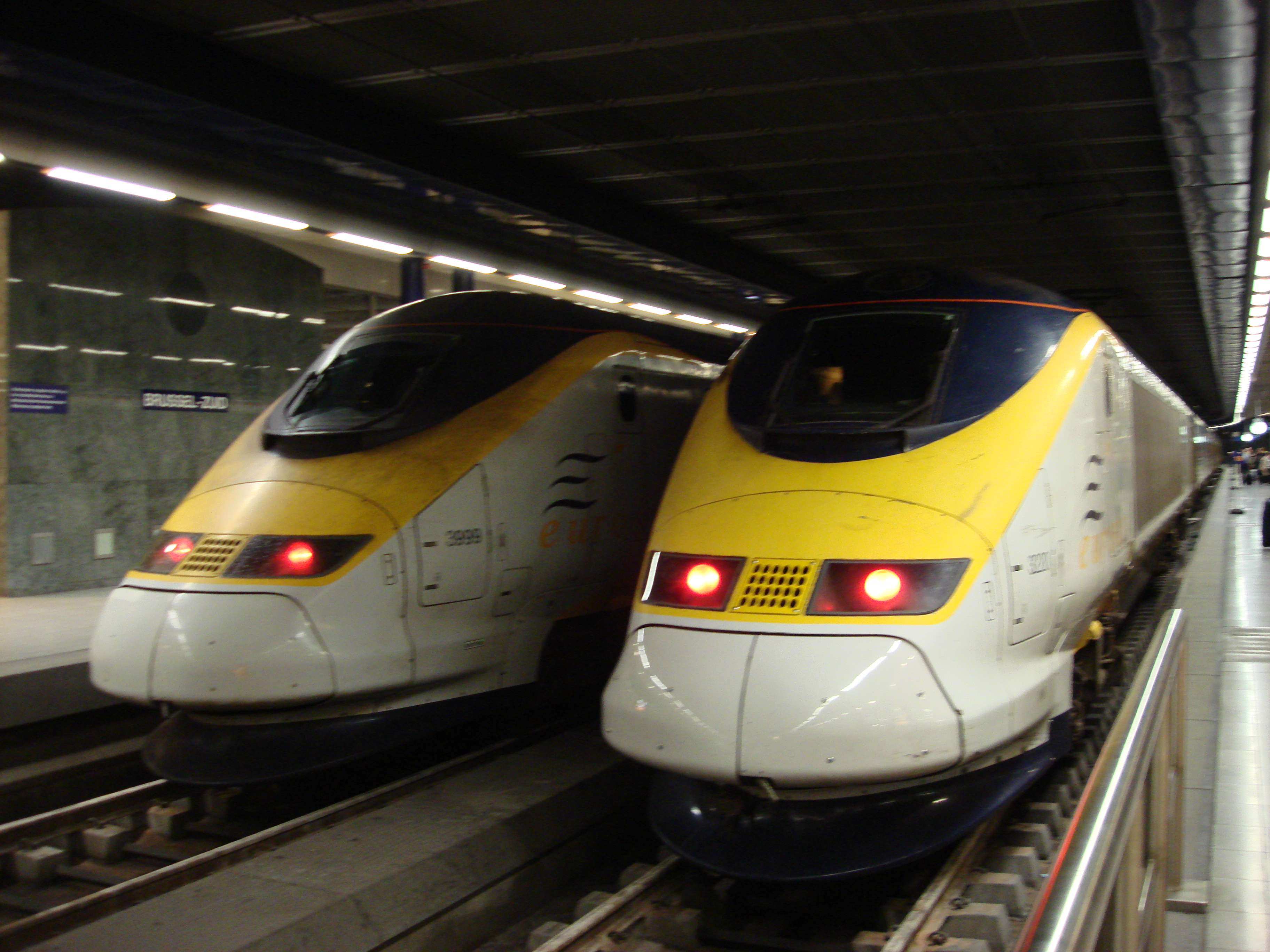 2 Eurostars one of them 3322 type NOL of British Rail Class 373/2's and the other 3999 at Brussels Midi/Zuid.